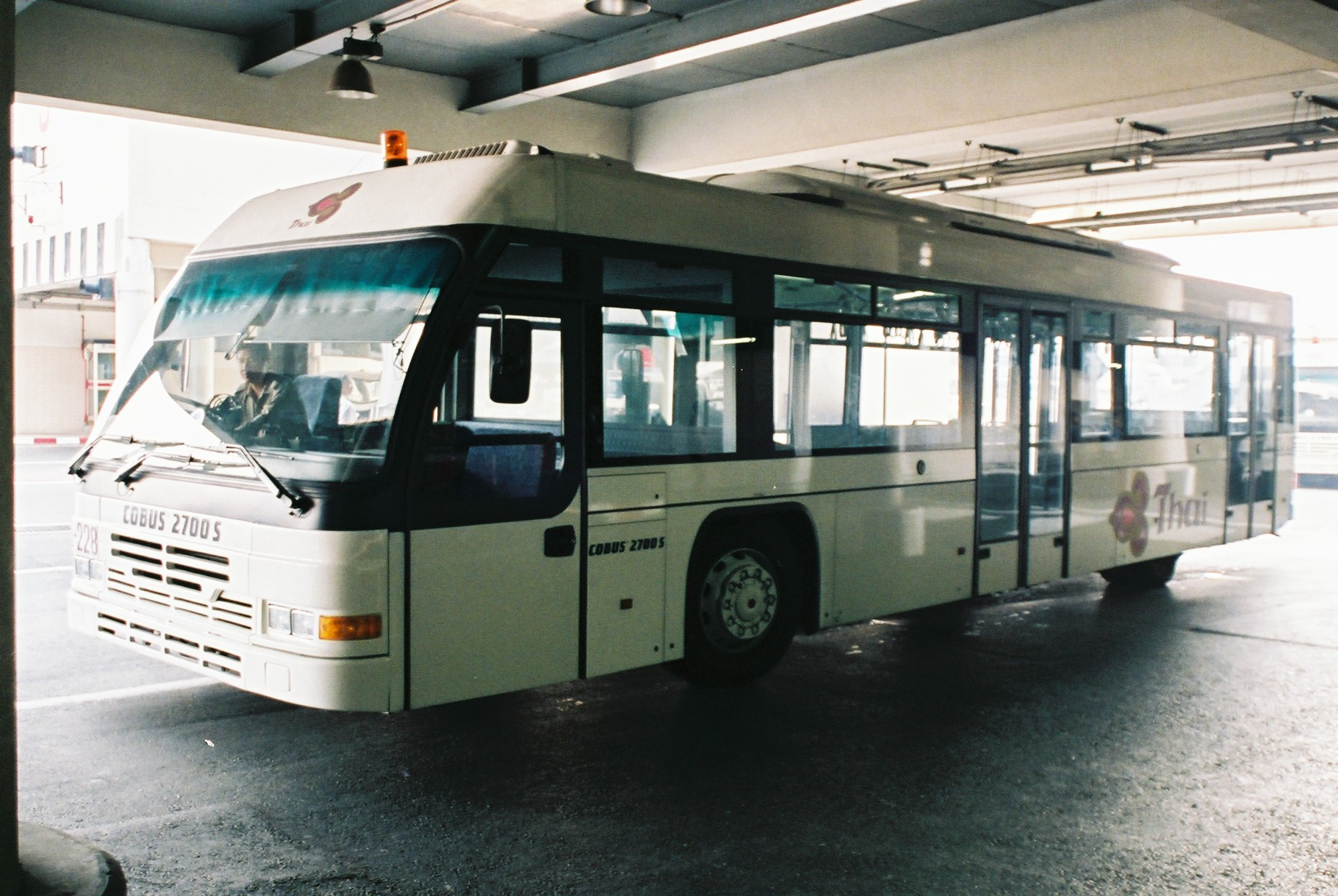 Contrac Cobus 2700S airport bus, @ Bangkok Don Muang International Airport (BKK/VTBD) in Thailand.